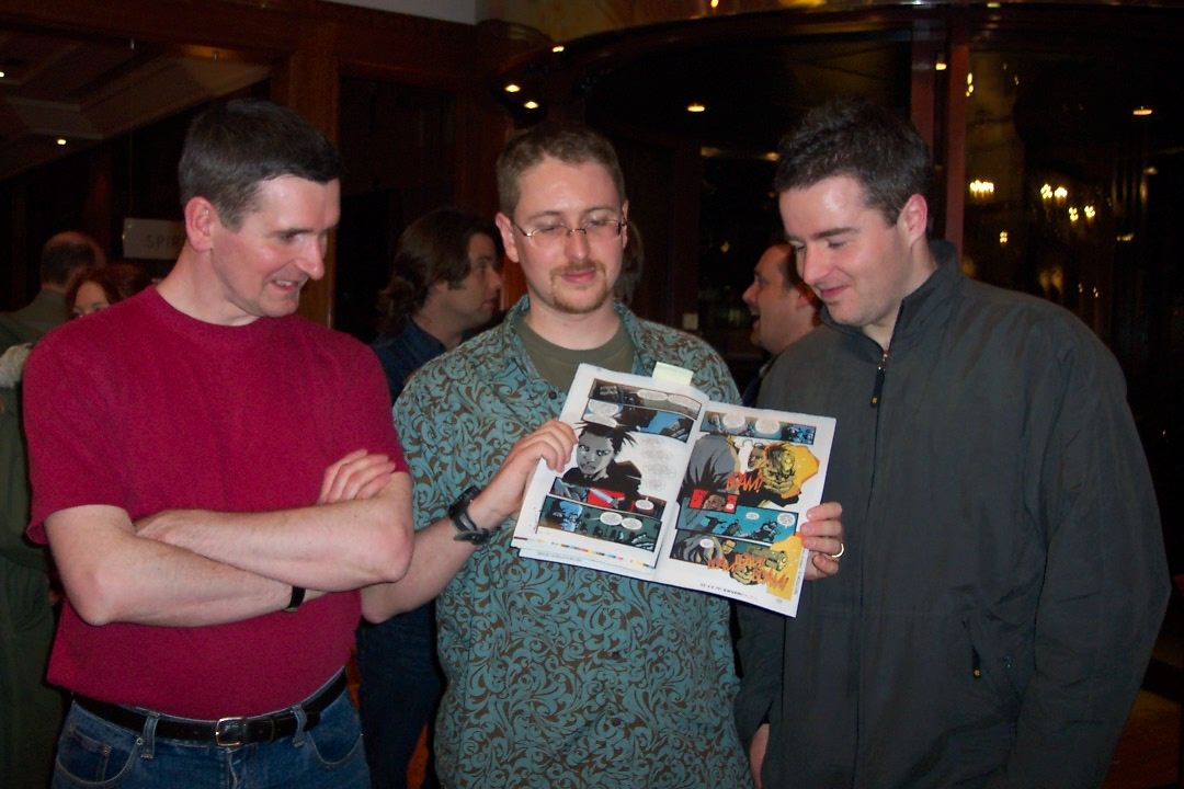 No ! Look at the camera ! Mike Carey, Andy Diggle and Jock LOSE themselves in The Losers preview